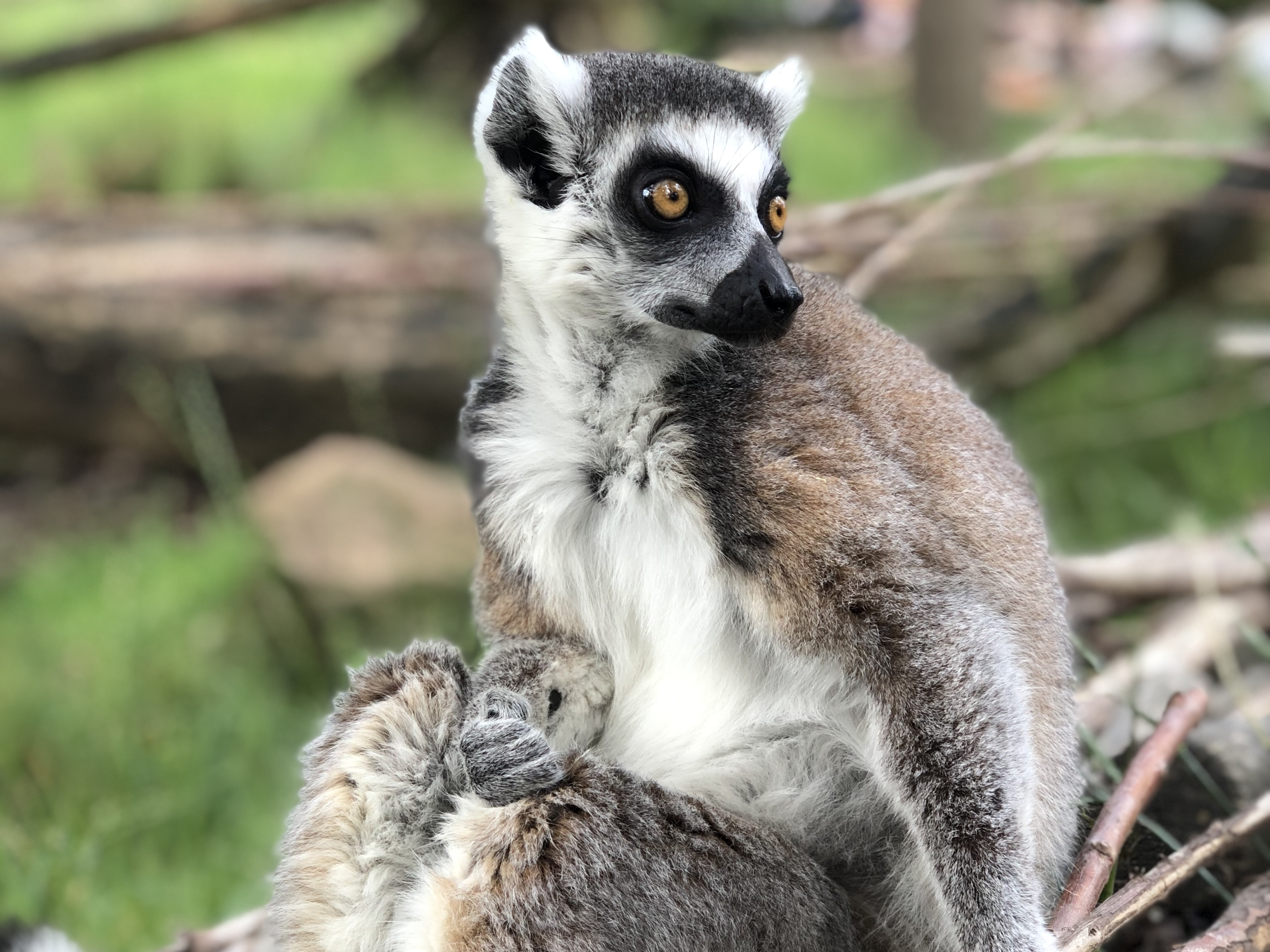 Ringstaartmaki in DierenPark Amersfoort